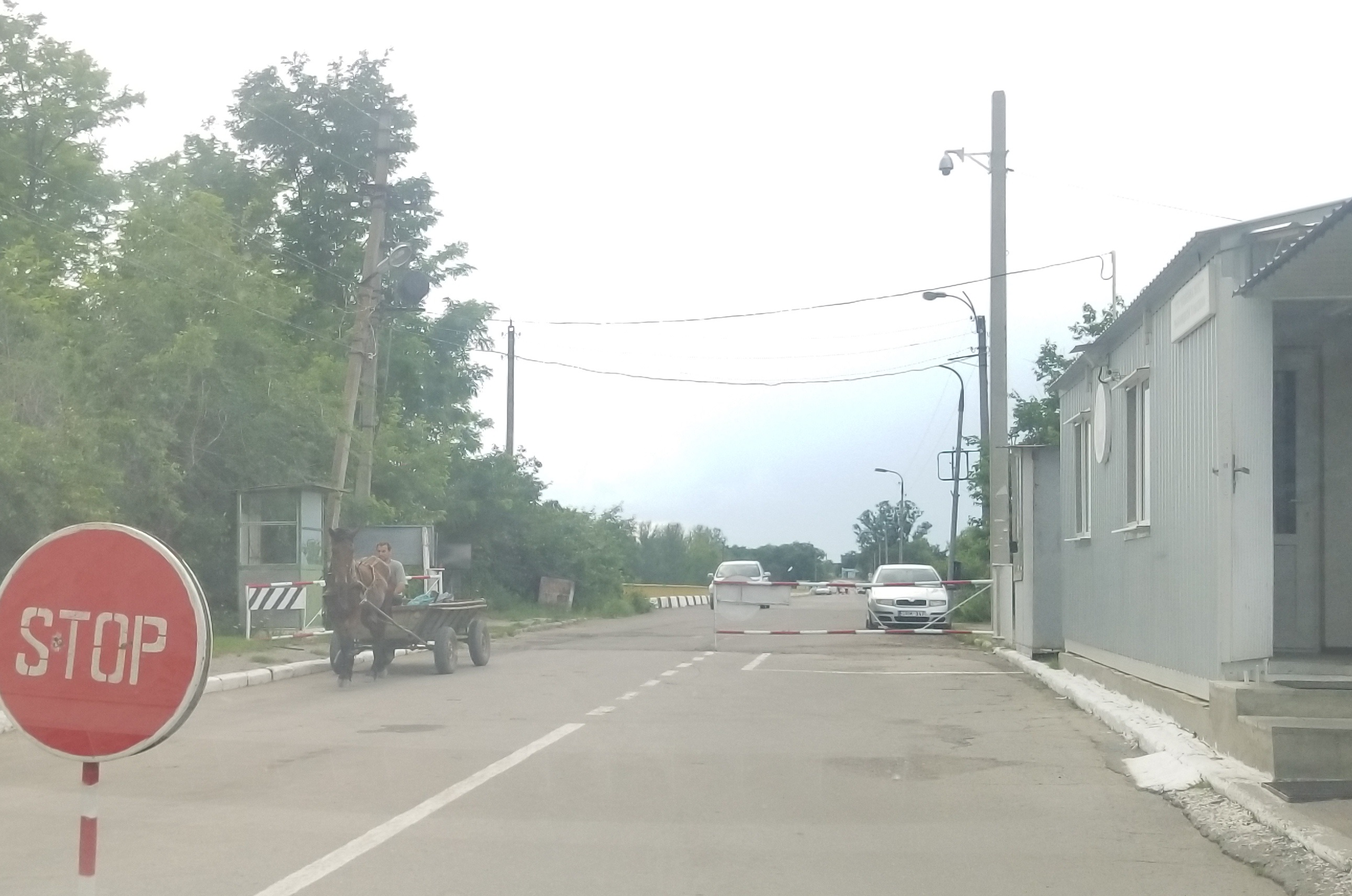 Transnistrian border checkpoint at Sanatauca